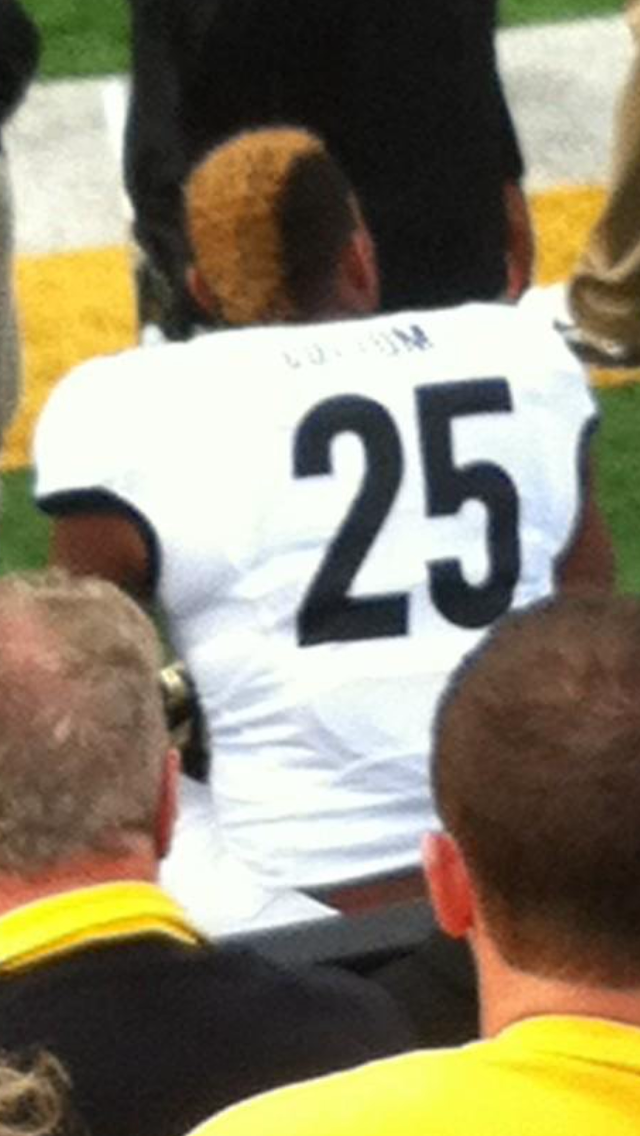 Brandon Cottom of Purdue University